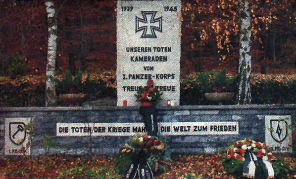 Memorial of the Waffen-SS in Marienfels, Germany